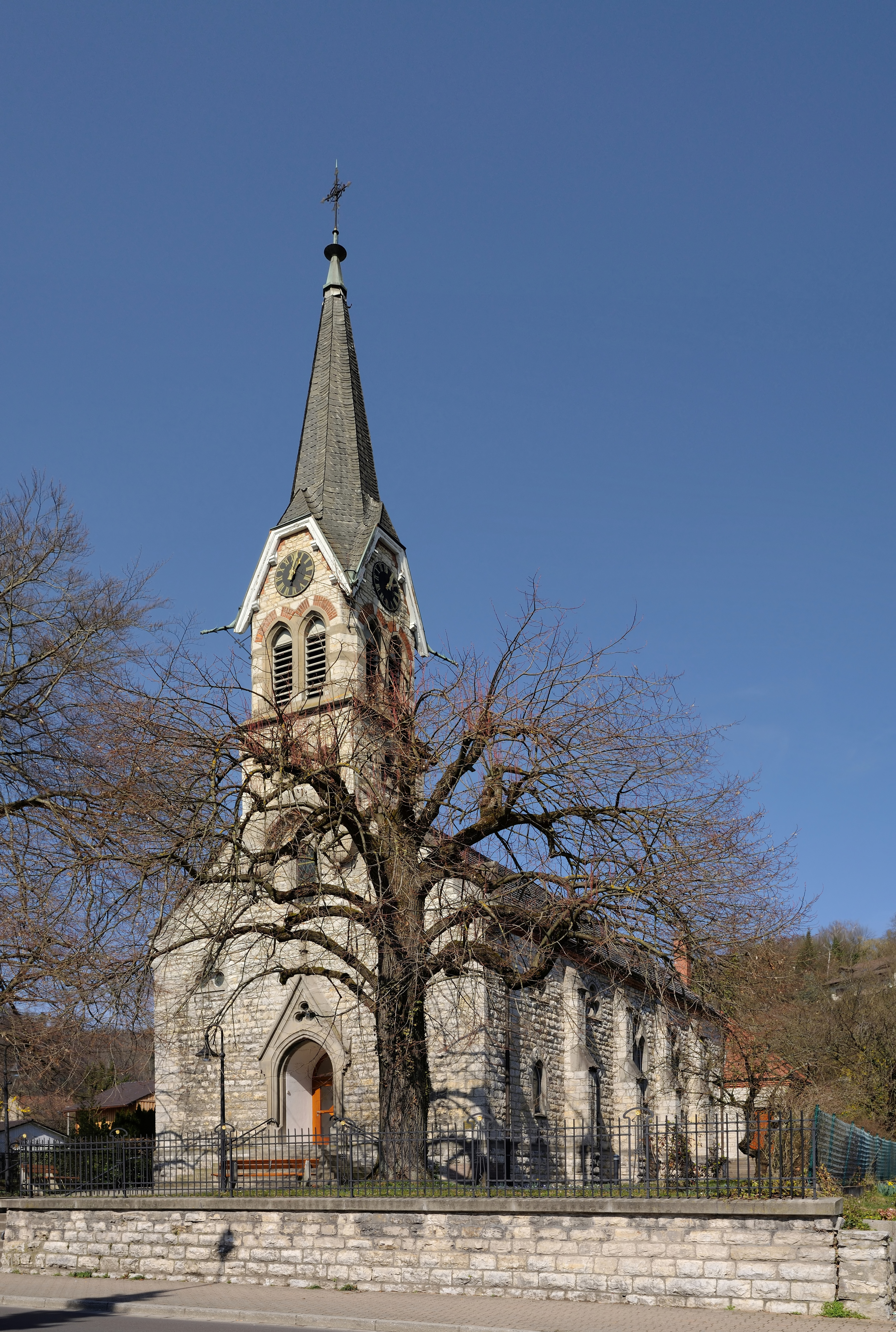 Wyhlen: the Peace Church, as seen from the south-west